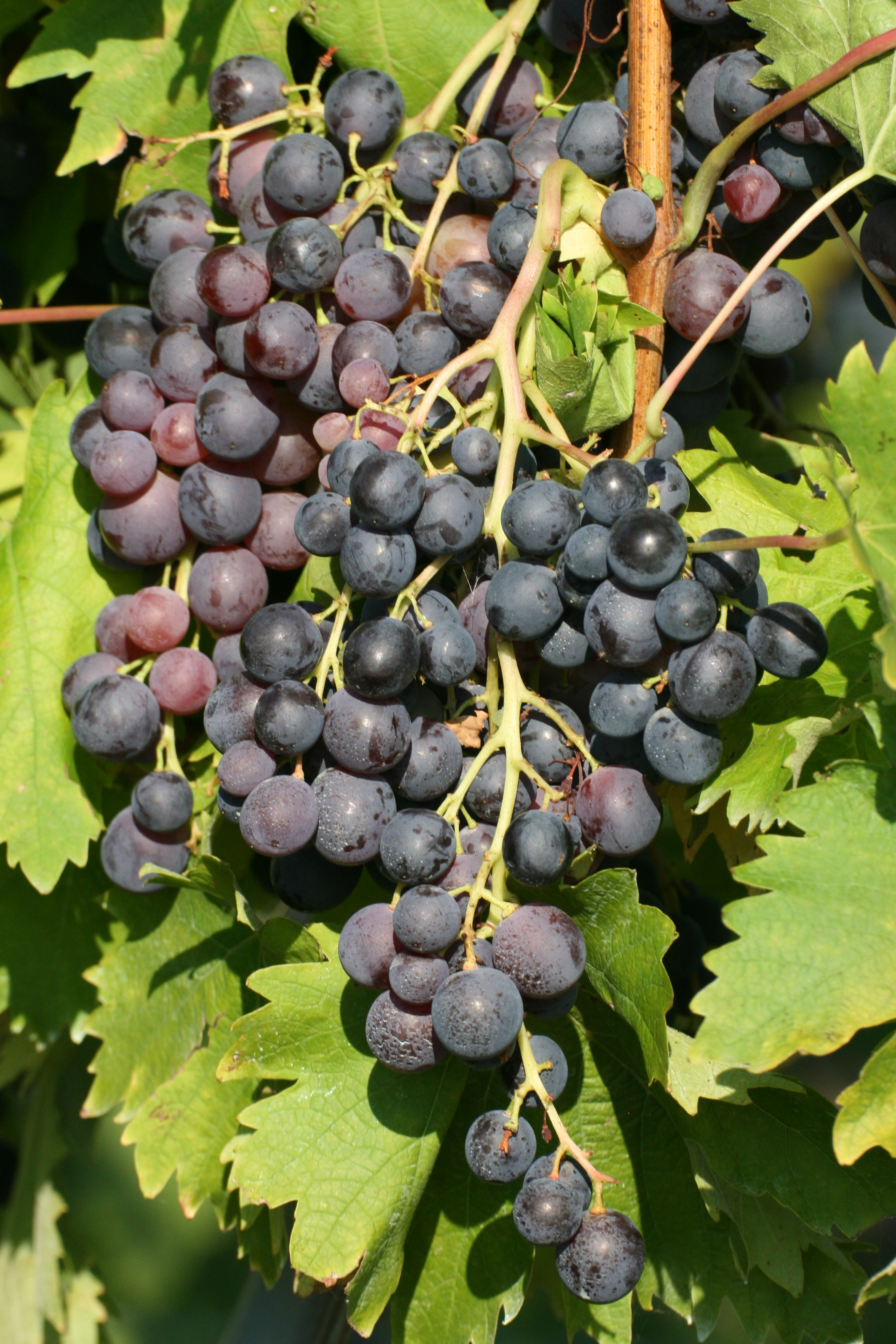 Grapes and leaves of the grape variety Muskat-Trollinger, photographed in Lehrensteinsfeld